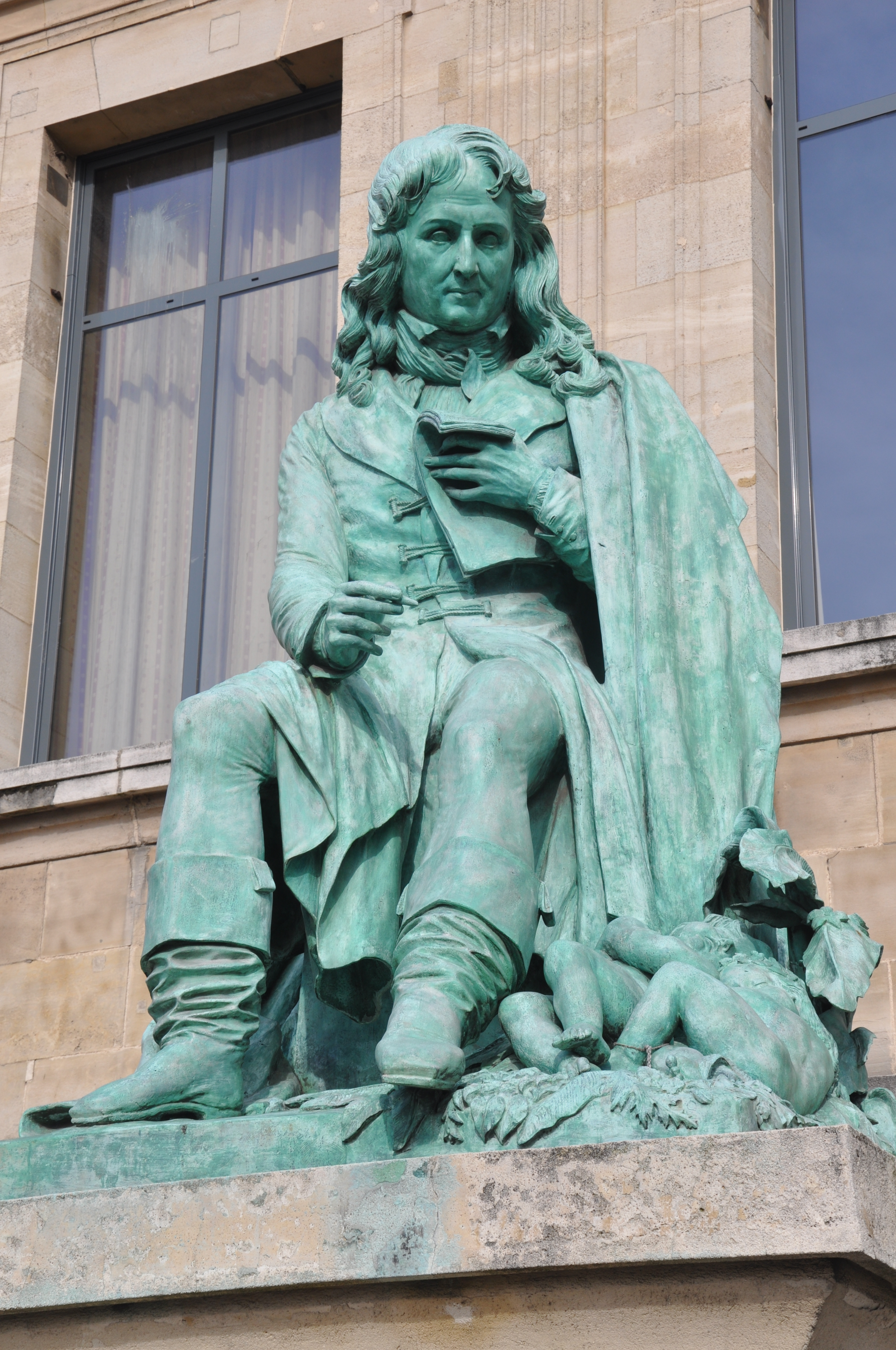 Le Havre (Normandy, France): statue of french writer Bernardin de Saint-Pierre.